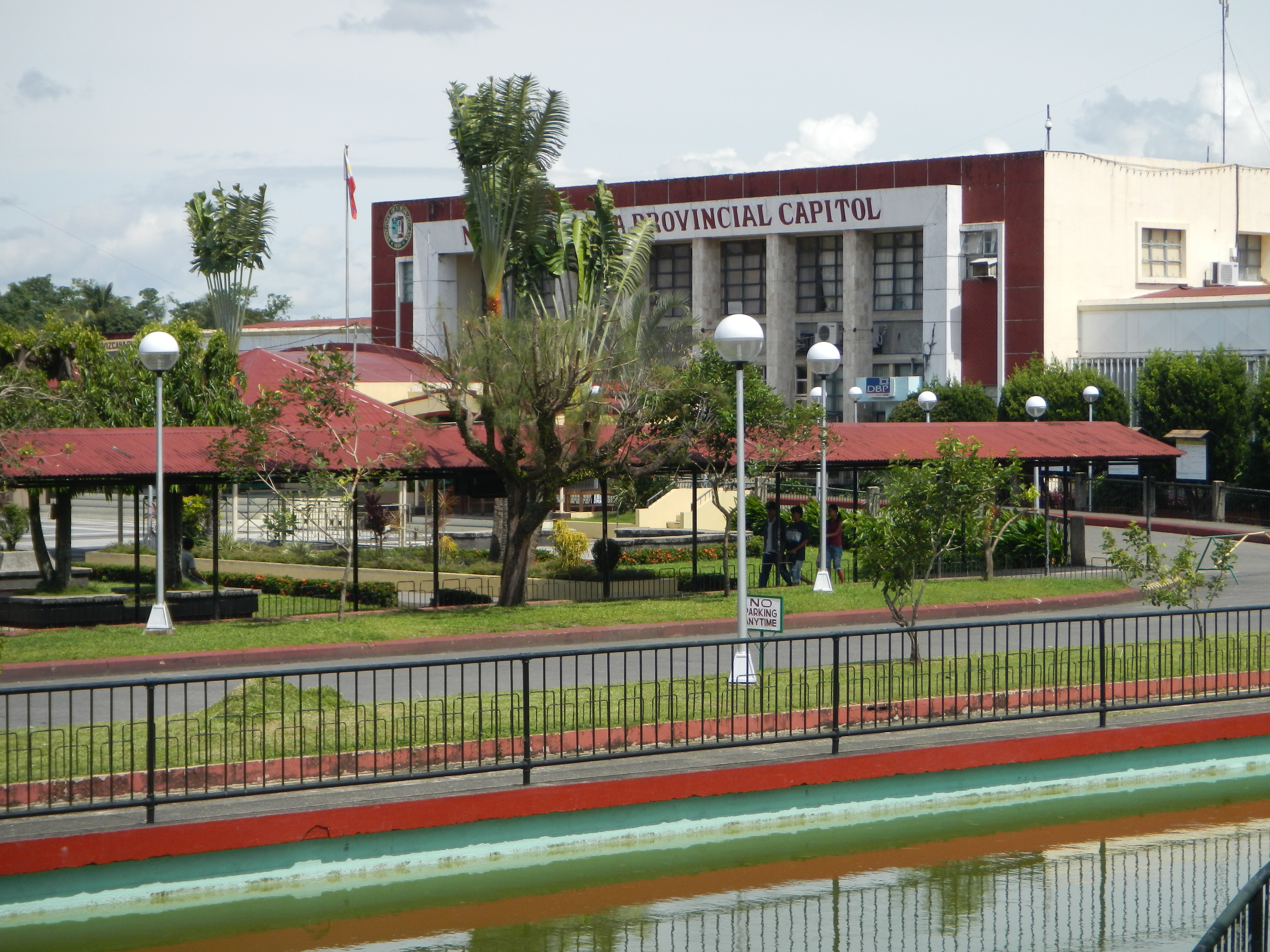 Upload Wizard photos of -- Bayombong, Nueva Vizcaya[1] -- Nueva Vizcaya Provincial Capitol Complex (by its builder, Governor Patricio G. Dumlao, along the national road, housing all the provincial government offices, the capitol building, an architectural ingenuity with an exotic park with exotic plant species, concrete benches and sidewalks lighted with giant lamps, a man-made lagoon, colorful mini-boats operated by handicapables, 5-hectare Capitol grounds, the Luneta of the North, the murals depicting the history of the diverse cultures of the province, a replica of the Salinas Salt Springs[2];Bayombong- situated along the banks of the Magat River and Palali Mountains, Bangle and Liri Mountains[3] Gov Padilla bares plan for Nueva Vizcaya tourism dev'[4] [5] [6] [7] [8] [9][10]).